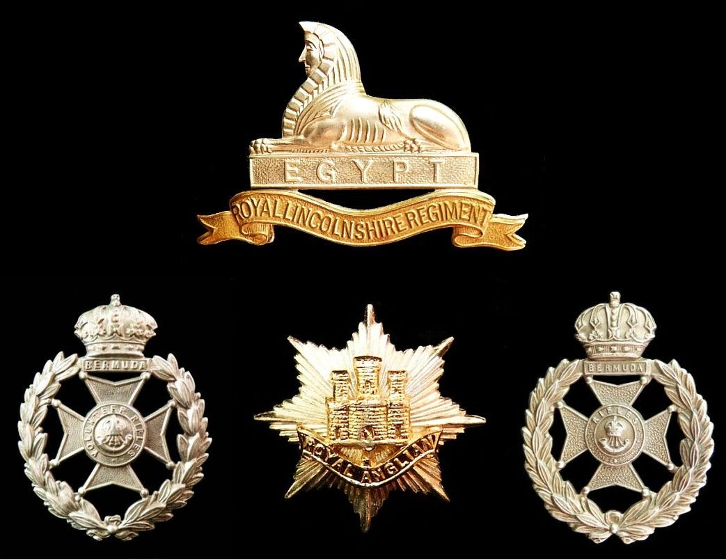 Badges of the Royal Lincolnshire Regiment (top) and related units: its descendant, the Royal Anglian Regiment (bottom-centre); its affiliate, the Bermuda Volunteer Rifle Corps (left); and the Bermuda Rifles (the BVRC, as it was retitled between 1951 and its amalgamation into the Bermuda Regiment in 1965).